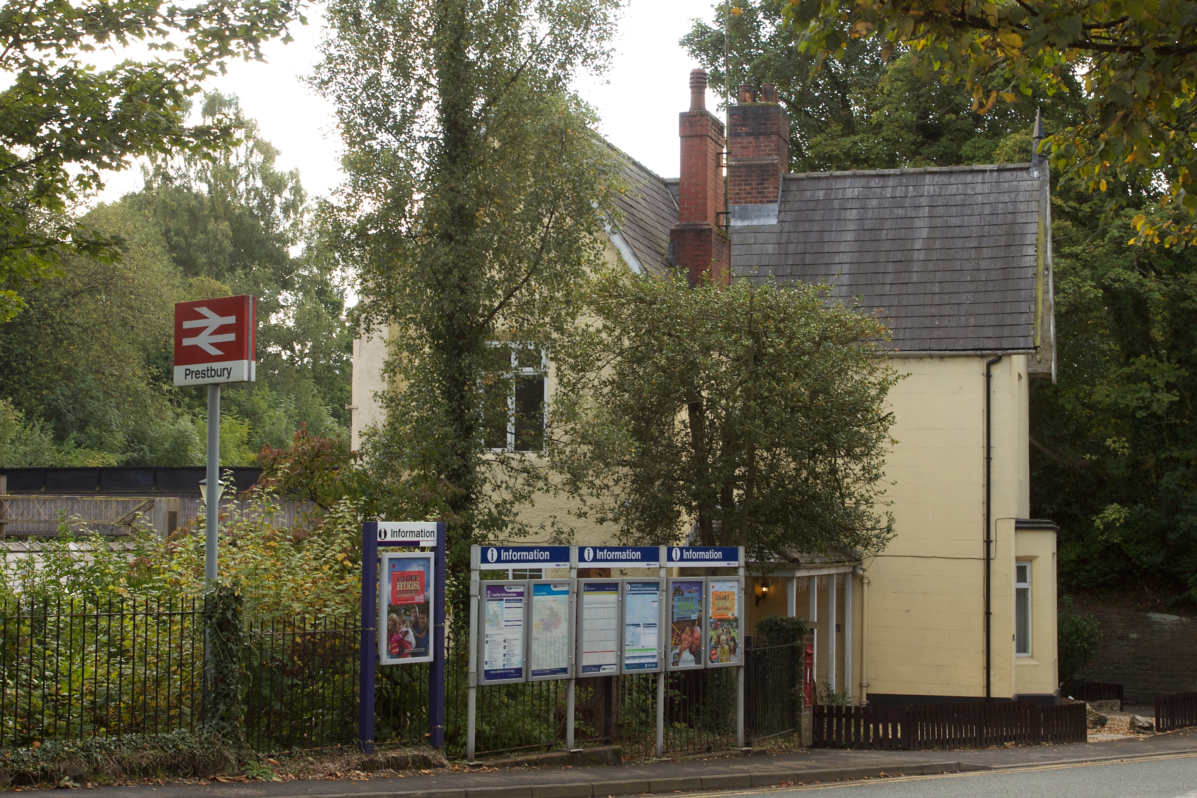 Photograph of the sign and entrance for Prestbury railway station in Cheshire UK, September 2011. The Station Master's house is also visible.